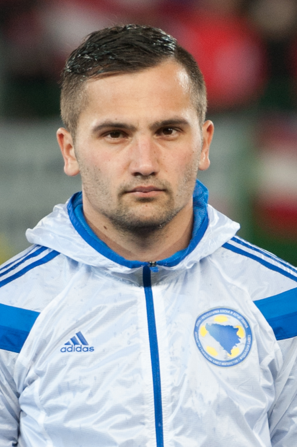 International friendly Austria vs. Bosnia and Herzegovina, 2015-03-31, Vienna